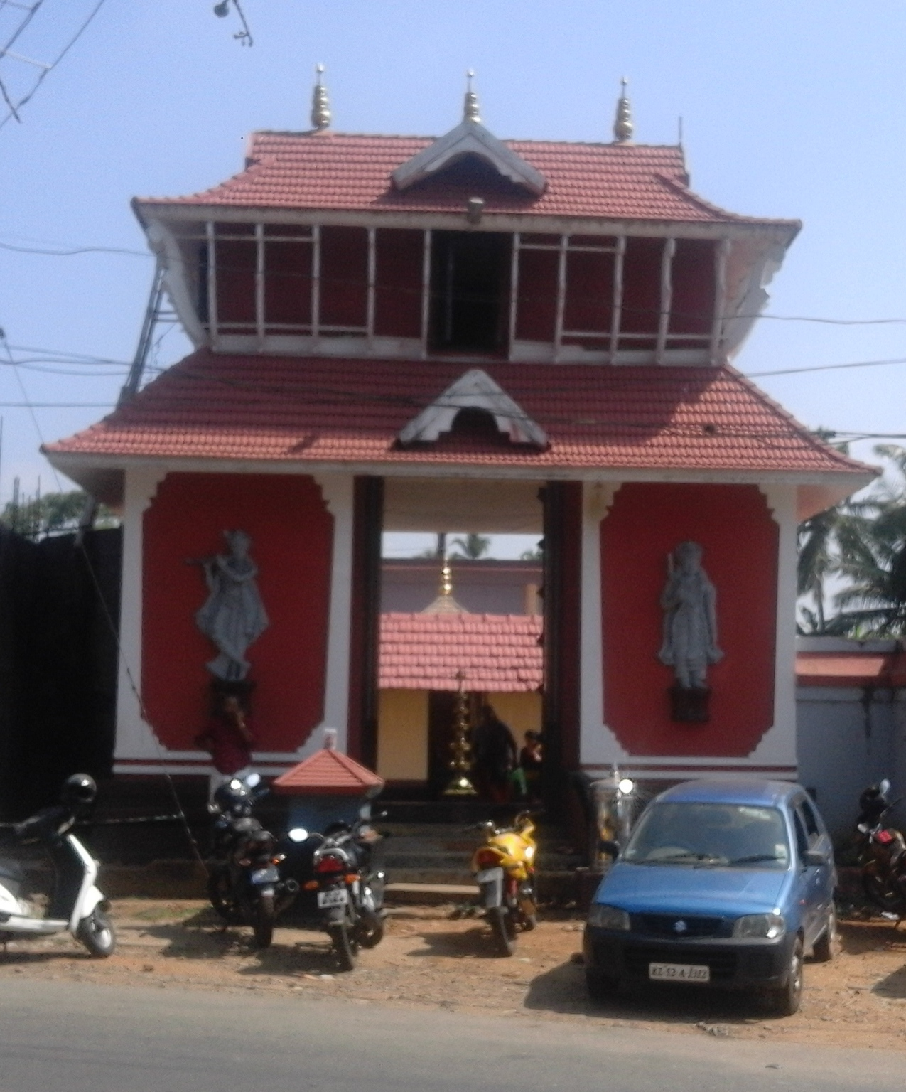 Pattambi, Kerala, India.